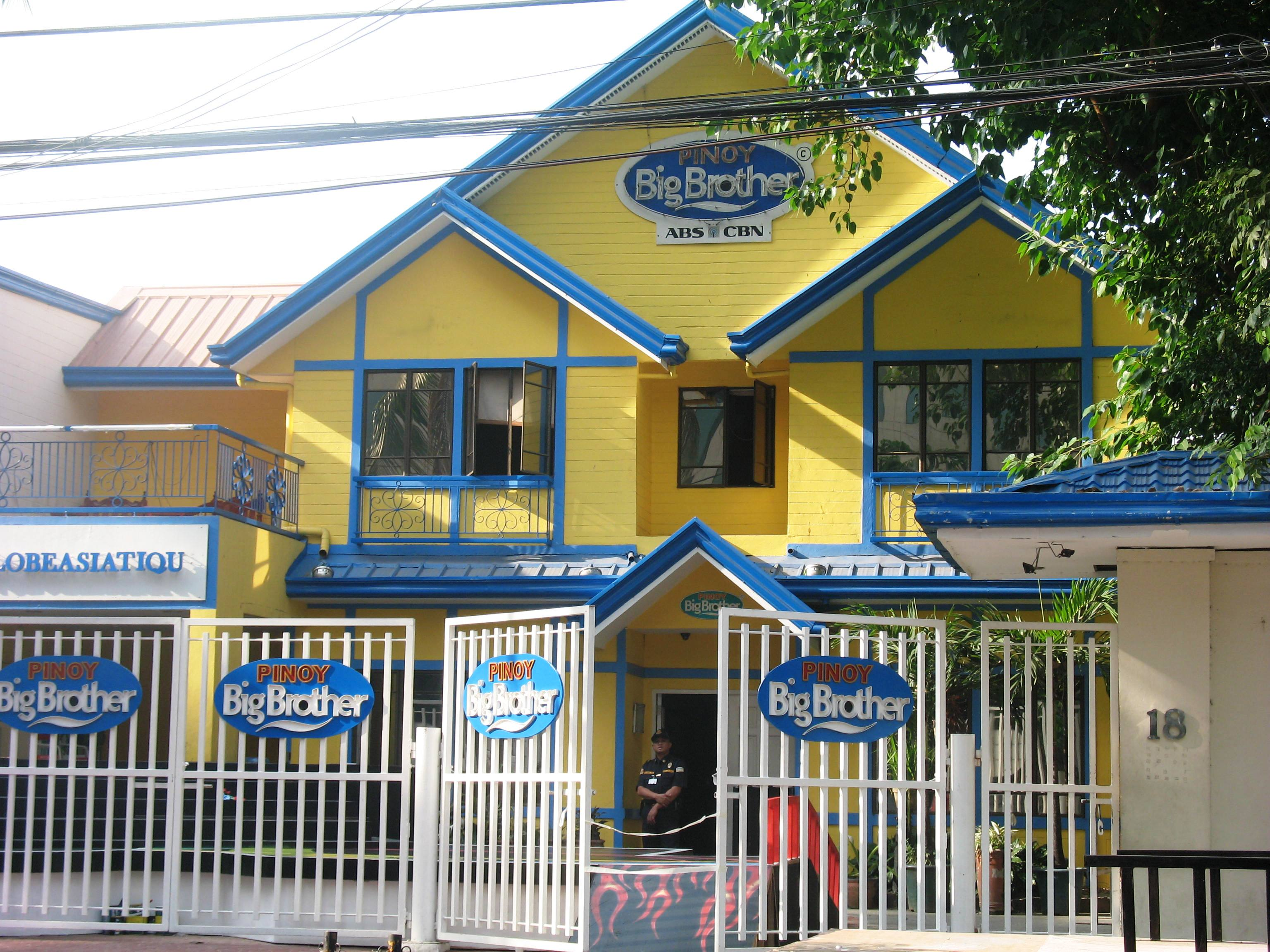 The facade of Pinoy Big Brother in front of ABS-CBN Studios.